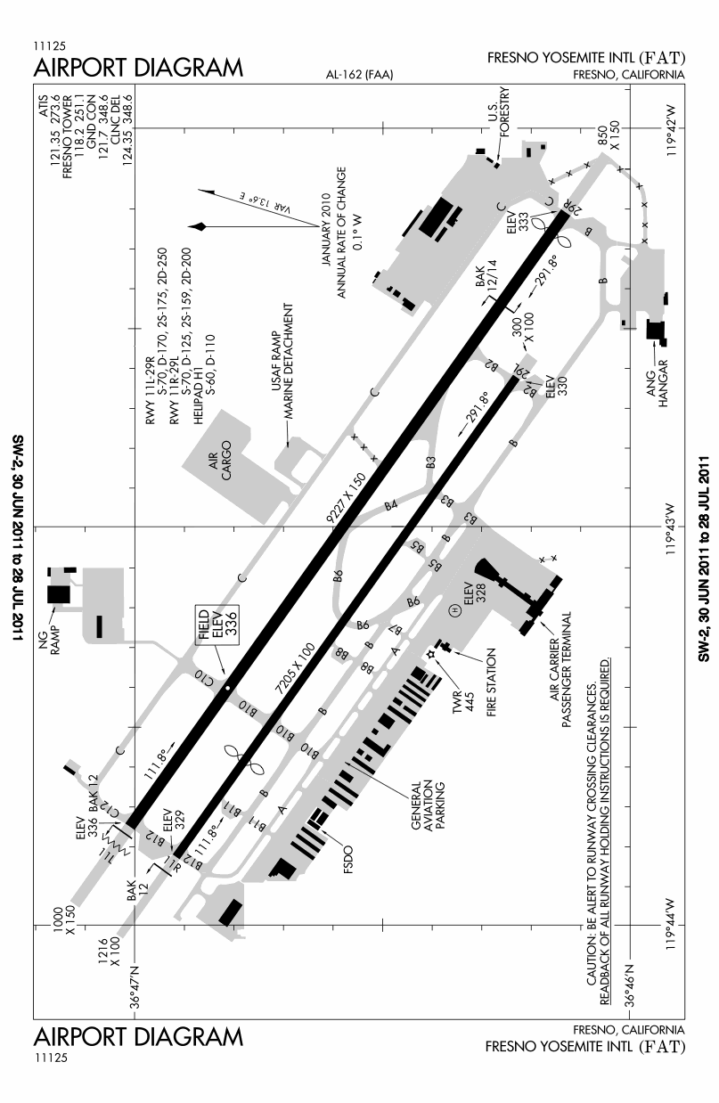 FAA airport diagram for FAT (Fresno Yosemite International Airport) in California, United States.